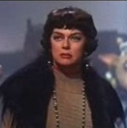 Screenshot of Rosalind Russell from the trailer for the film Gypsy.